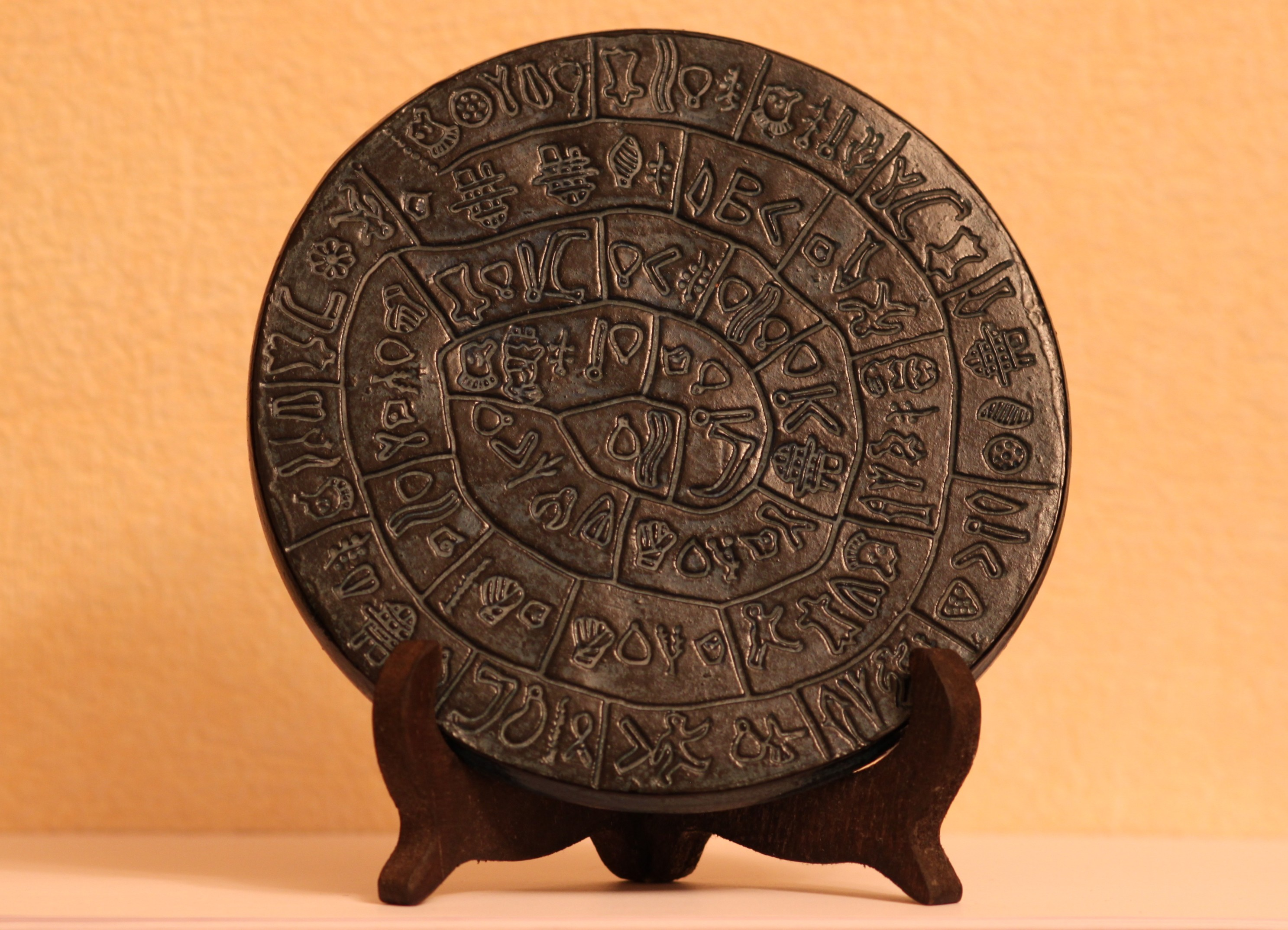 Phaistos Disc Souvenir